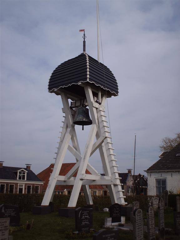 wooden bell tower in Broek, Friesland, Netherlands